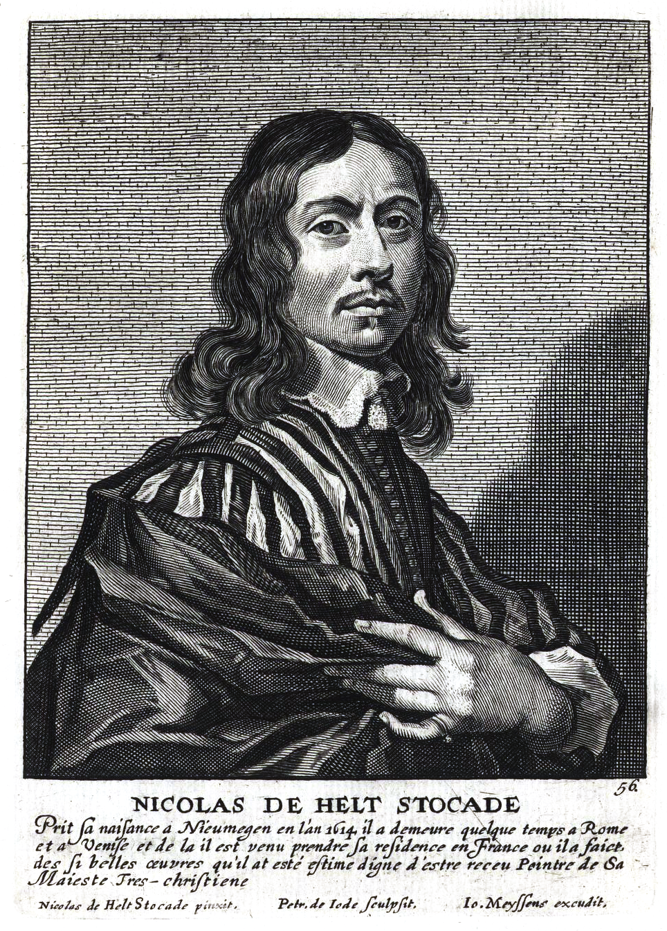 Portrait of Nicolaes de Helt Stockade in Cornelis de Bie's Gulden Cabinet.